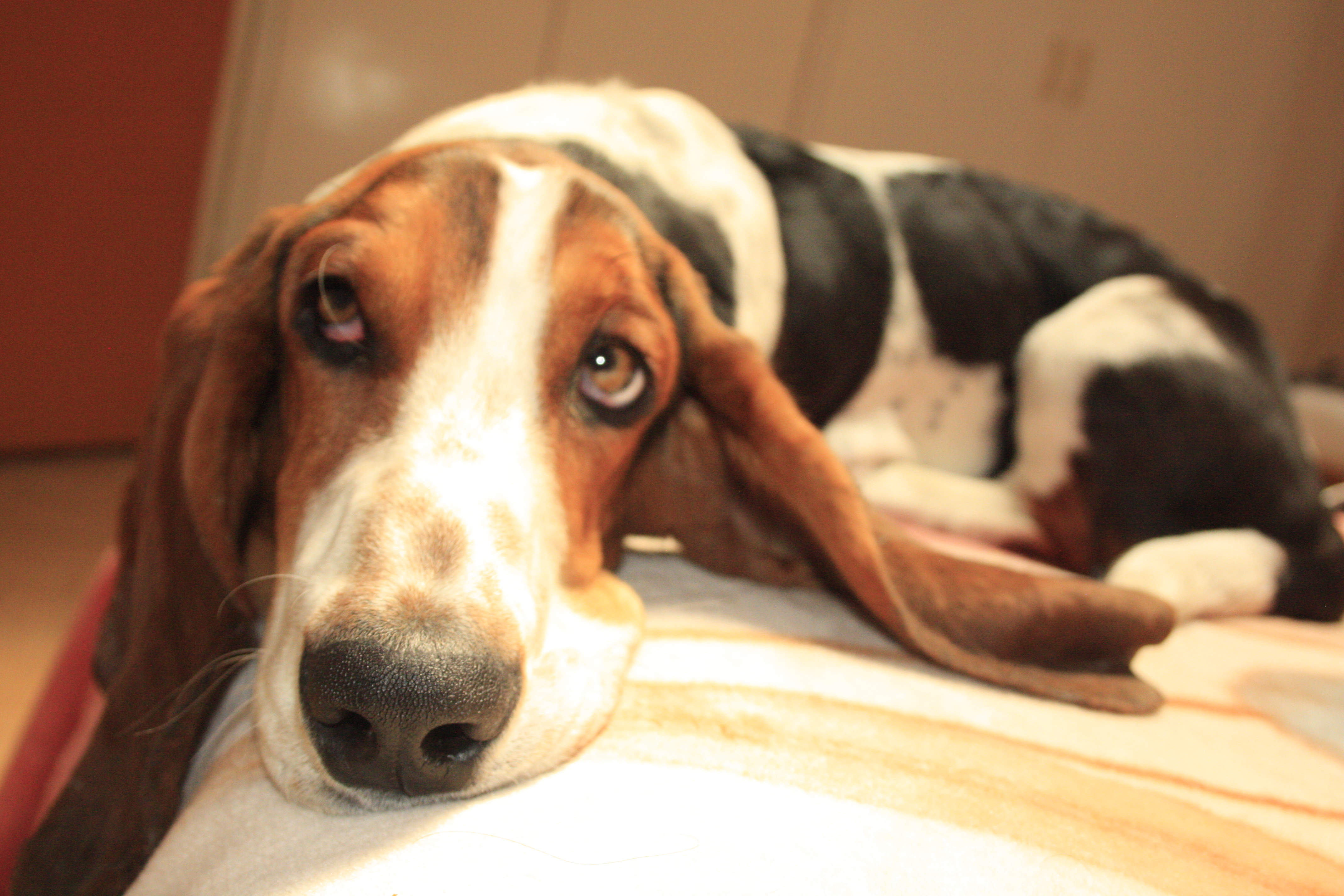 Basset Hound Tricolor